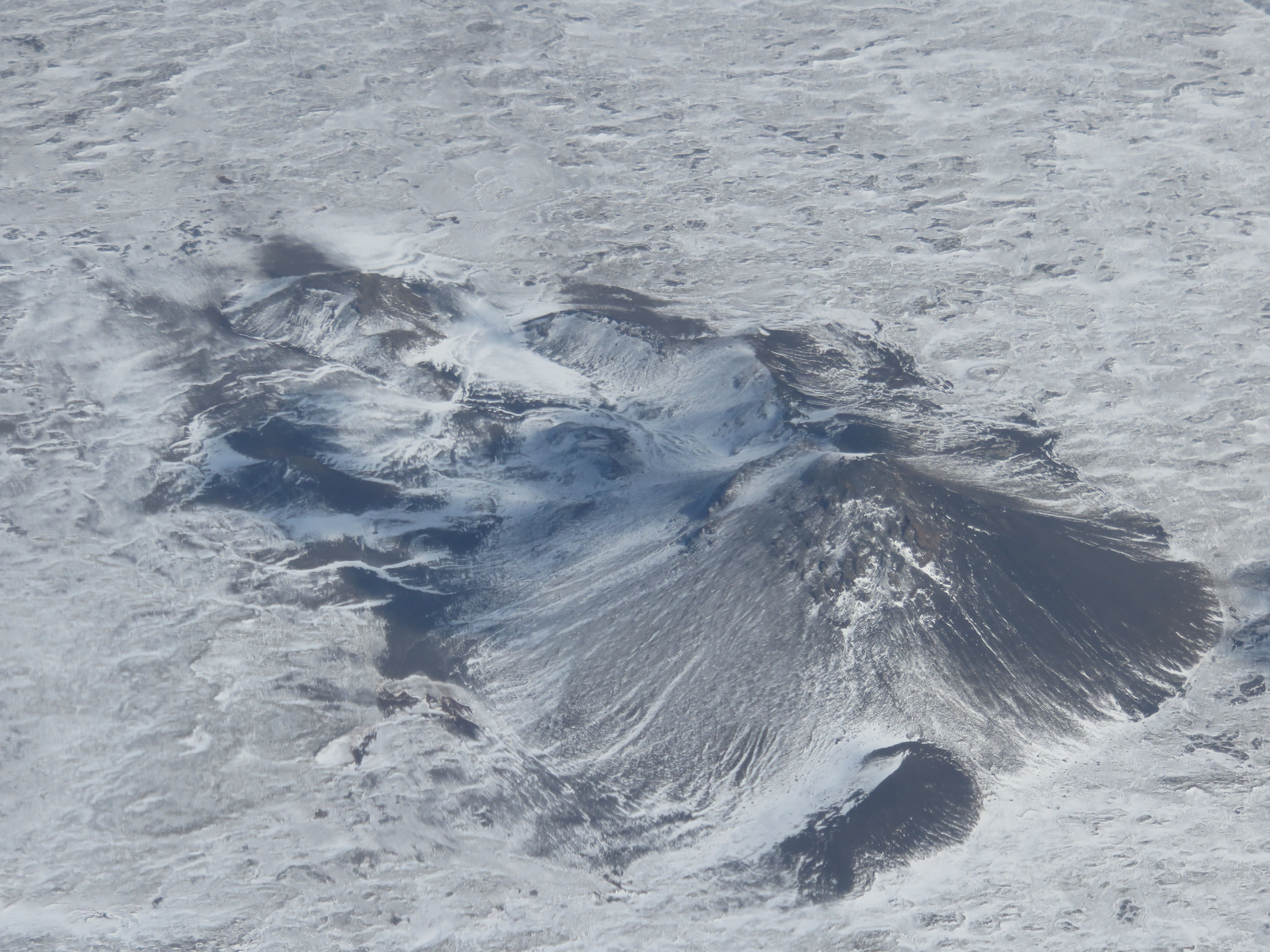 Aerial view of hill, probably Keilir, near Reykjavík in 2018